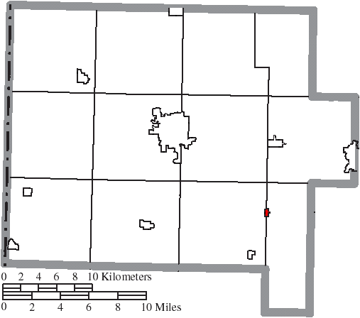 Map of the municipal and township boundaries of Van Wert County, Ohio, United States, as of the 2000 census, with the location of the village of Venedocia highlighted. Township borders are shown only in unincorporated areas in order to differentiate incorporated and unincorporated areas more clearly.